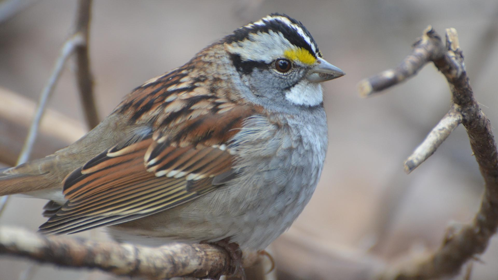 Powder Valley Nature Center in Kirkwood MO on 1/13/2013